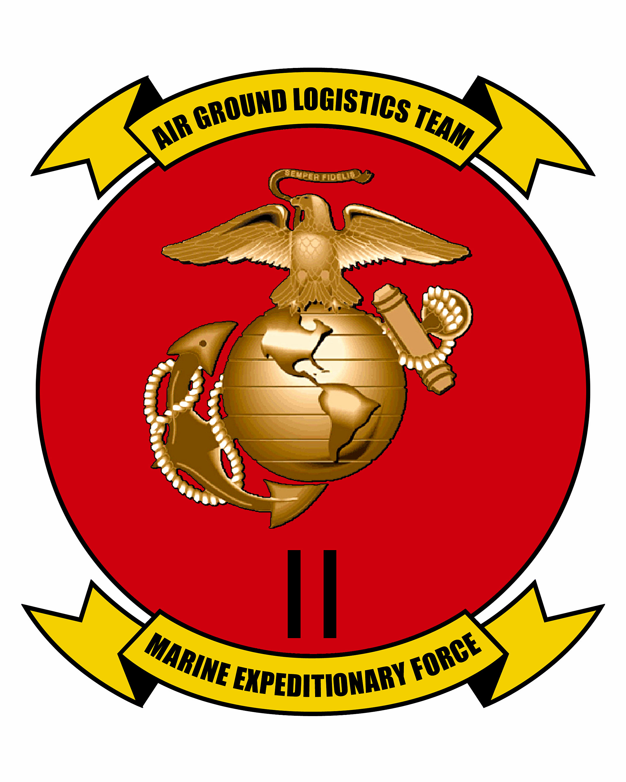 From the Depart of Defense image search website - Defense Visual Information Center. Picture comes up if you search for II Marine Expeditionary Force ID: DM-SD-05-12576 Service Depicted: Marines Official logo II Marine Expeditionary Force. Location: CAMP LEJEUNE, NORTH CAROLINA (NC) UNITED STATES OF AMERICA (USA) Date Shot: 1 Jan 2005